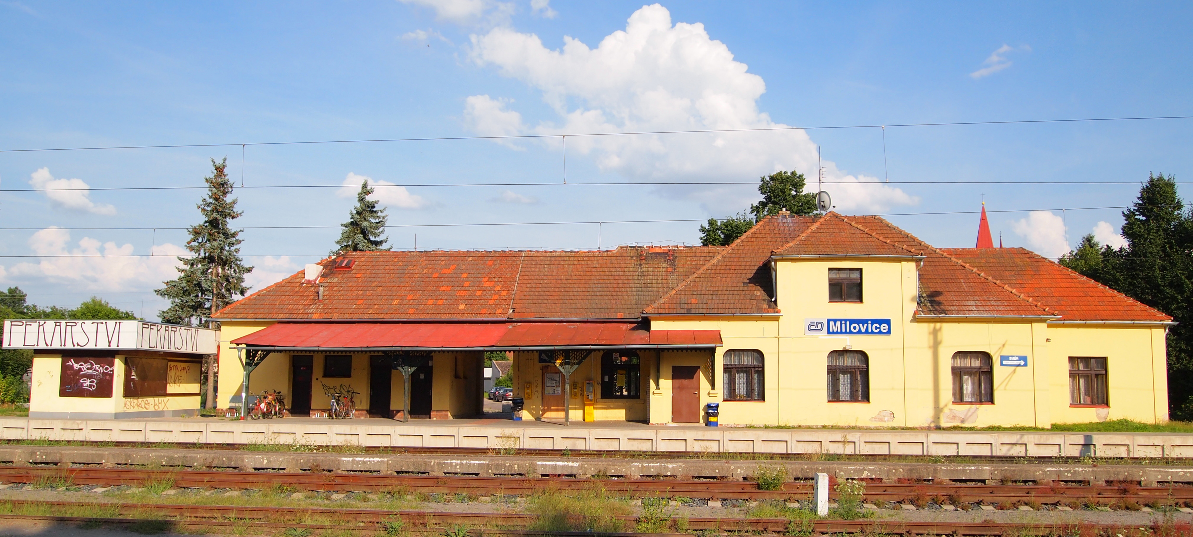 Train station in Milovice. This photograph was taken with an Olympus E-PL1